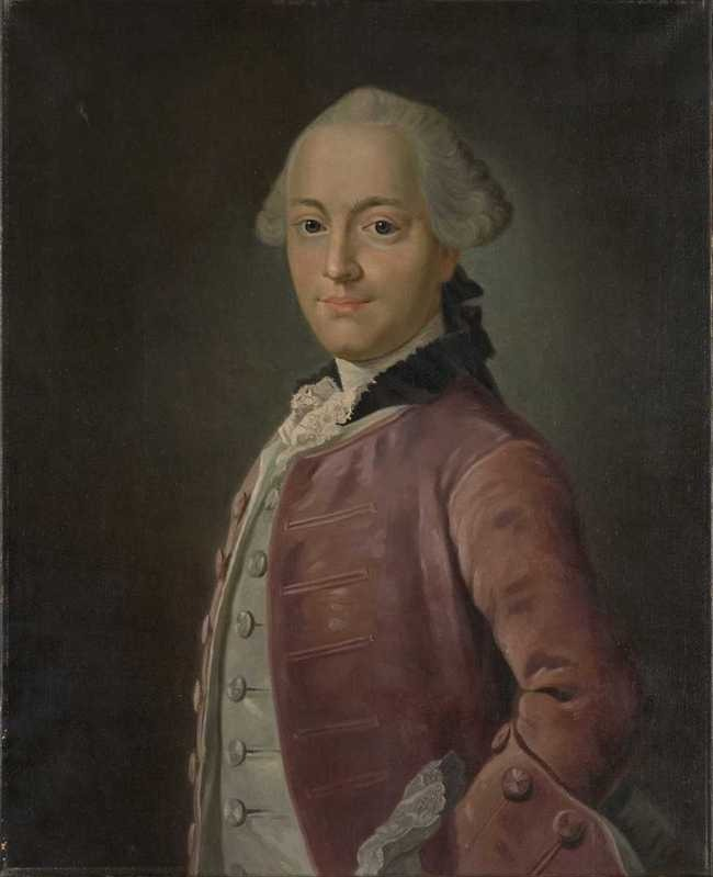 Jørgen Erik Skeel (1737-1795), Danish privy councillor etc. Painting by Hans Viggo Westergaard from 1921, copy after painting by unknown artist. The original is from the 18th century.